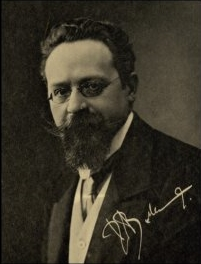 Max Isidore Bodenheimer